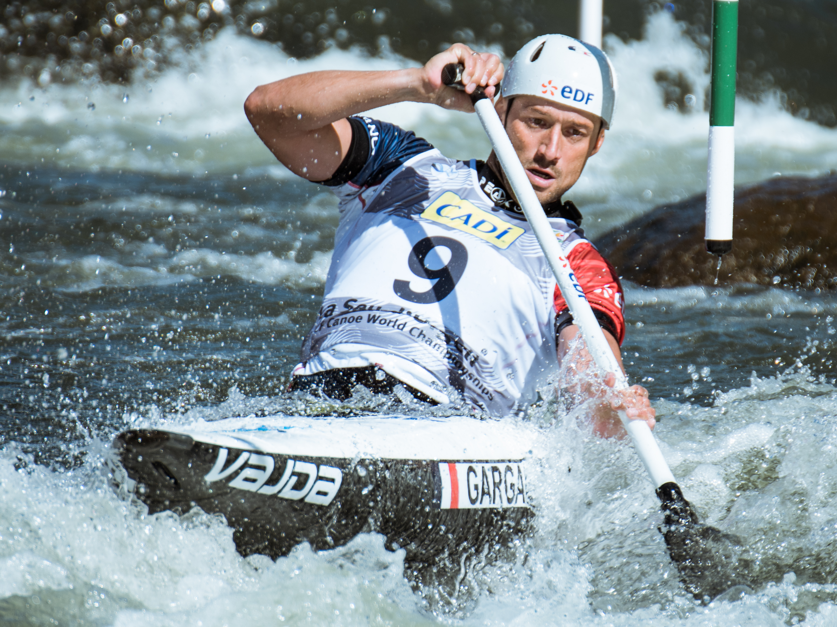 Denis Gargaud Chanut during the 2019 Canoe Slalom World Championships in La Seu d'Urgell, Spain.